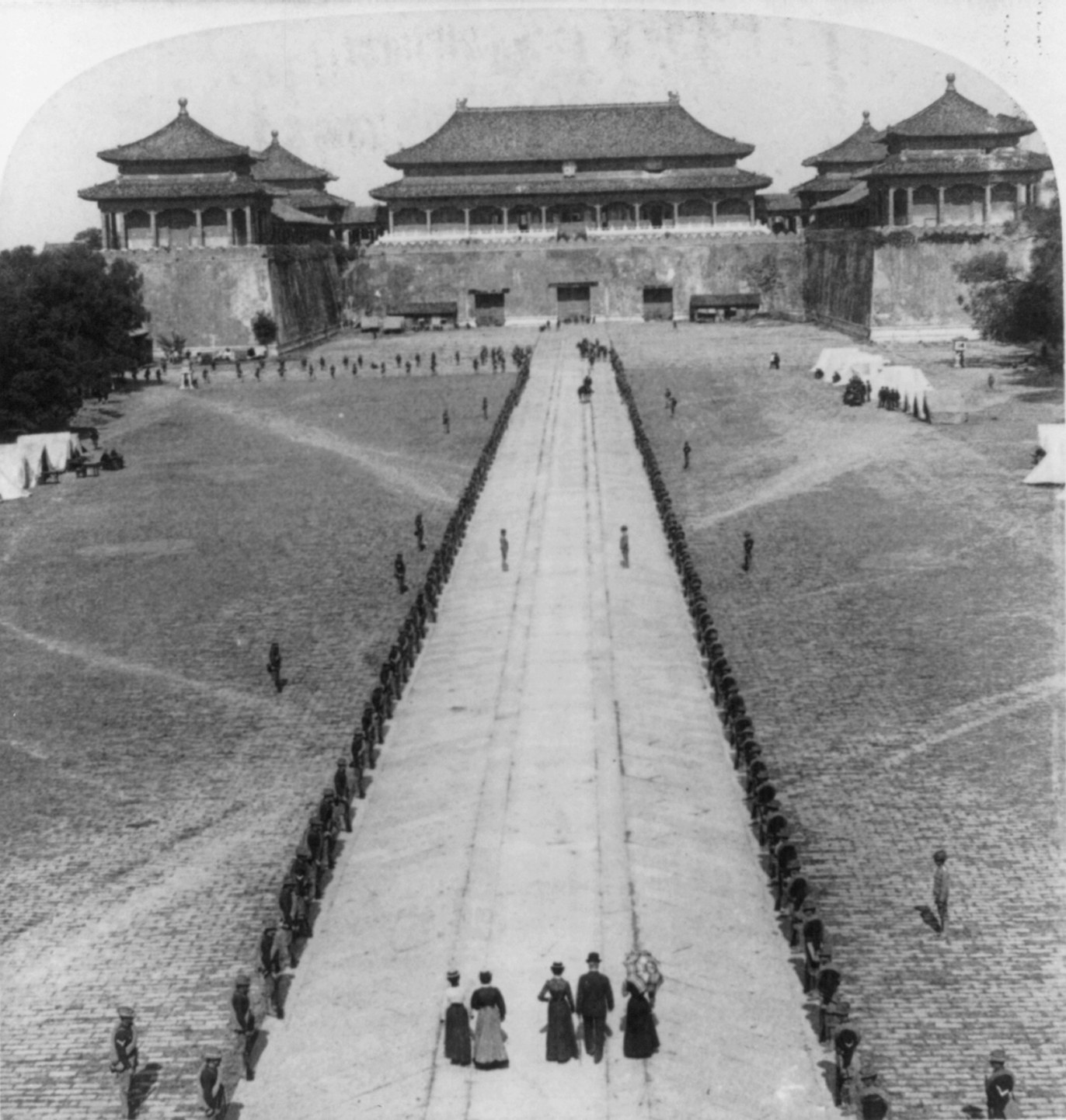 9th U.S. Infantry Regiment lined before the Meridian Gate of the Forbidden City, in honor of Count Waldersee. American Minister Edwin Hurd Conger, Sarah Pike Conger, and family in foreground, Forbidden City, Peking, China (1901). Caption card tracings: BI; Army, U.S.—Inf.—9th; Photog. I; Boxer Rebellion; China—P-; Geogr.; Shelf.